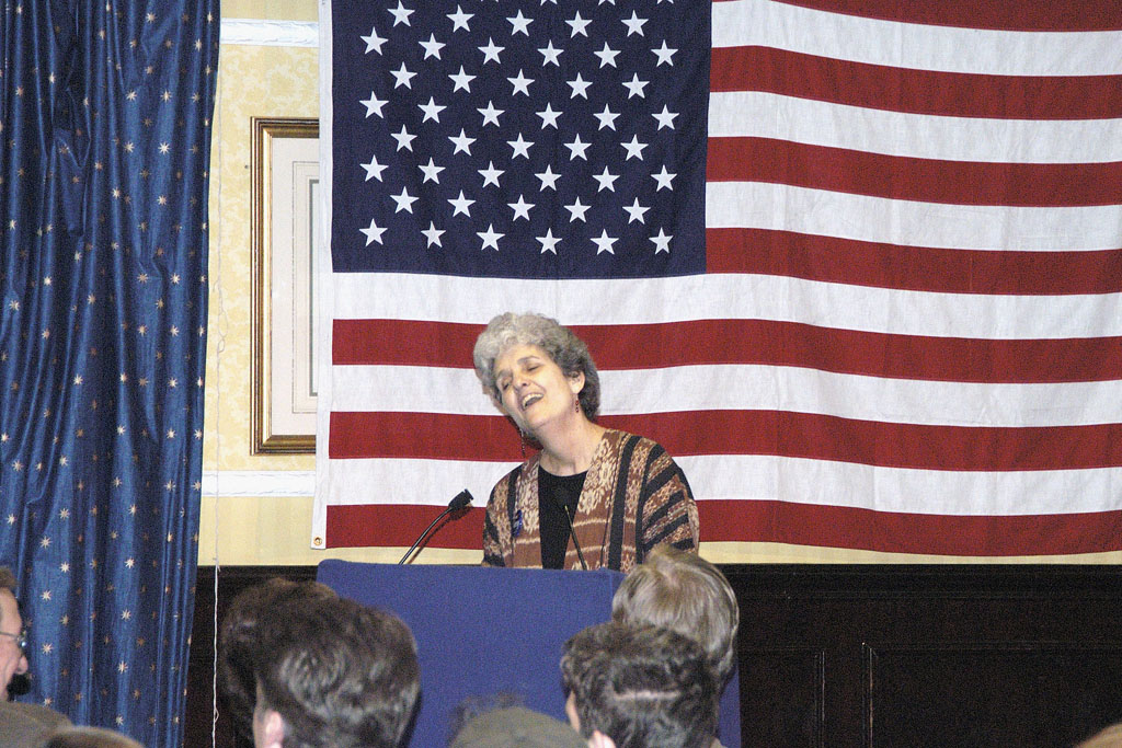 Diana Kerry at the Democrats Abroad World Caucus in Edinburgh in 2004